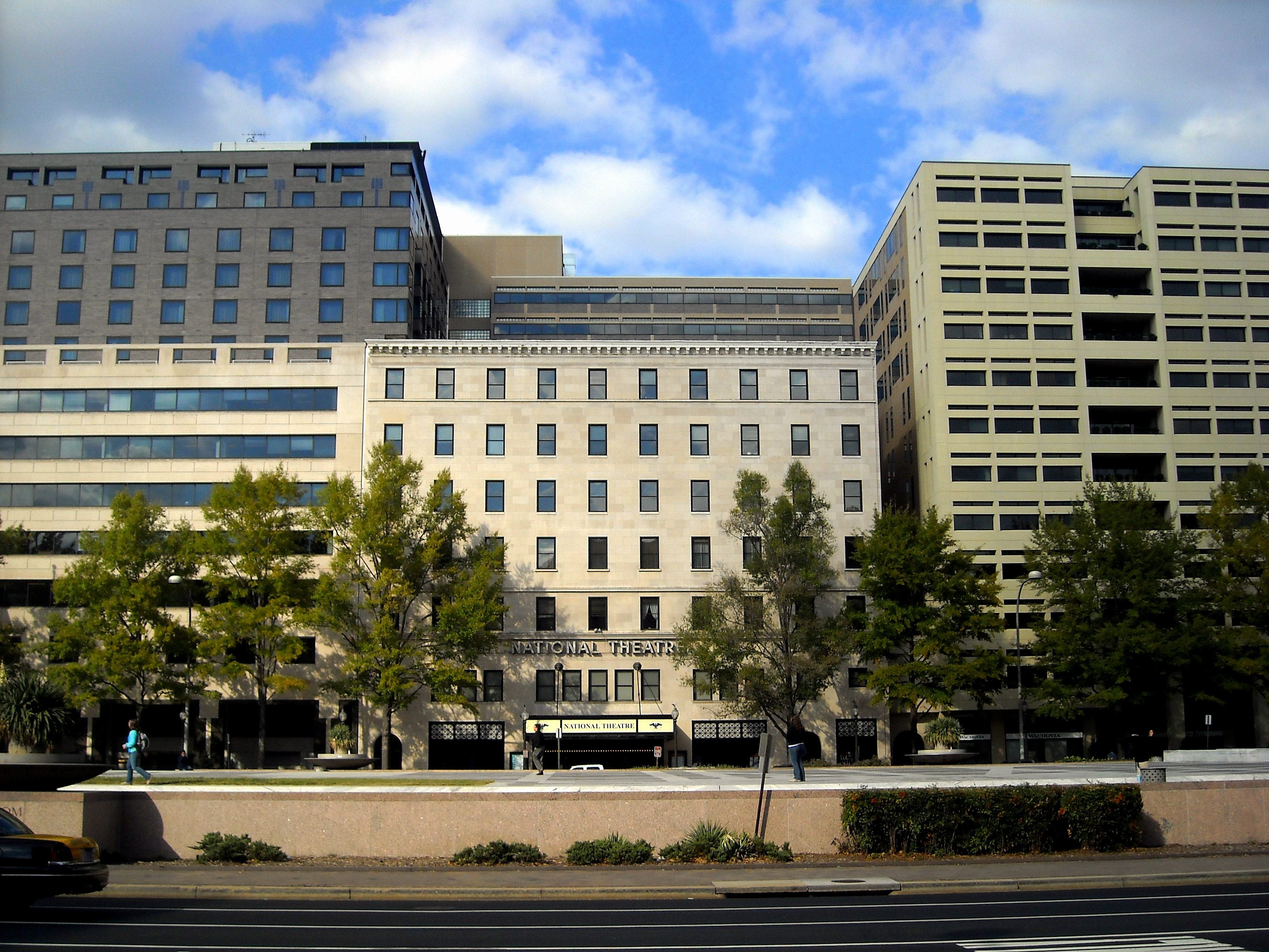 Freedom Plaza located on Pennsylvania Avenue, NW in Washington The National Theatre is in the background.